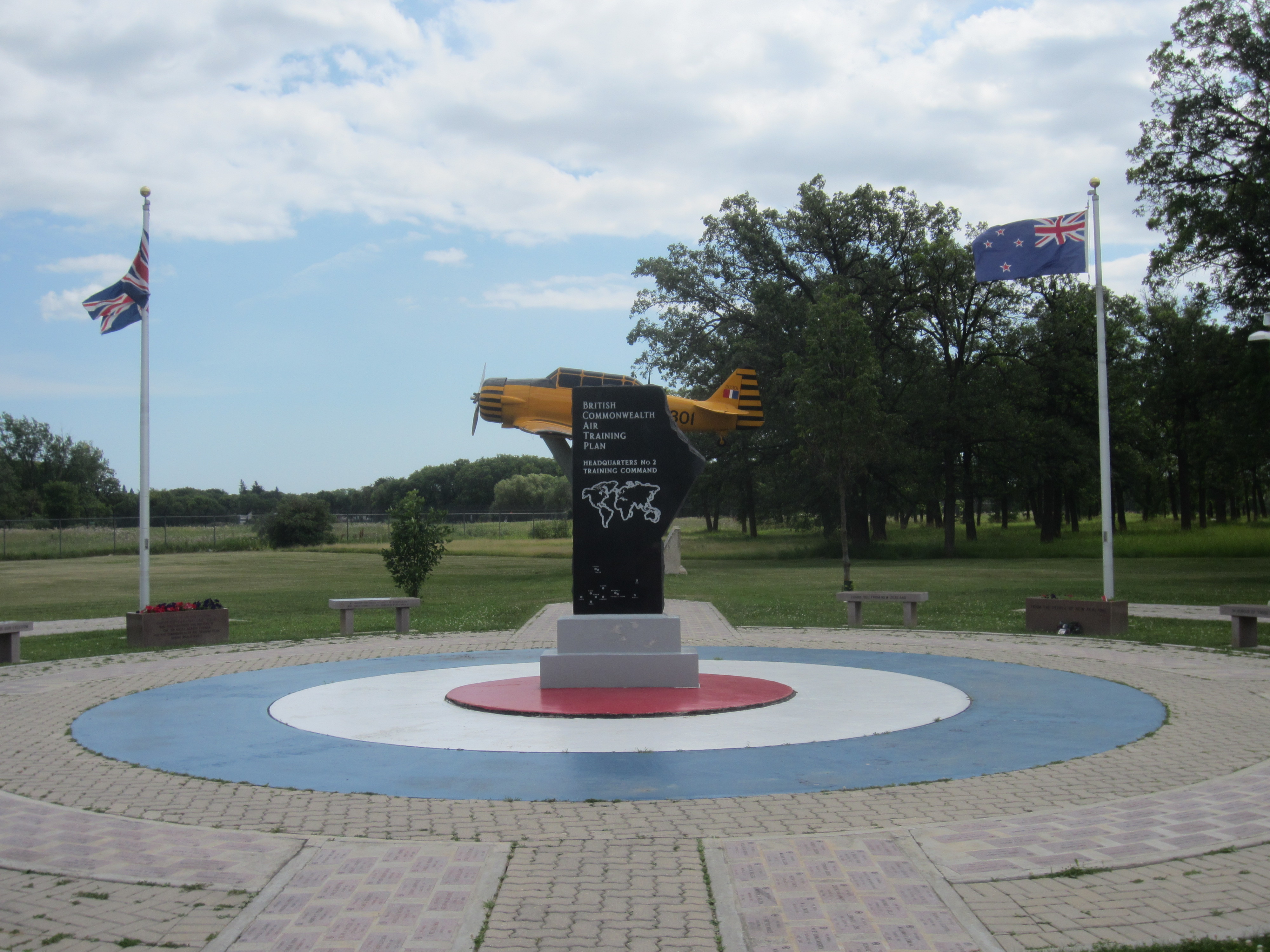 Memorial garden for British Commonwealth Air Training Plan at Winnipeg, near Winnipeg James Richardson International Airport and the base for 17 Wing. A Harvard Mk. 4 trainer is on static display behind the monument. Located in Air Force Heritage Park, dedicated on June 6, 1999